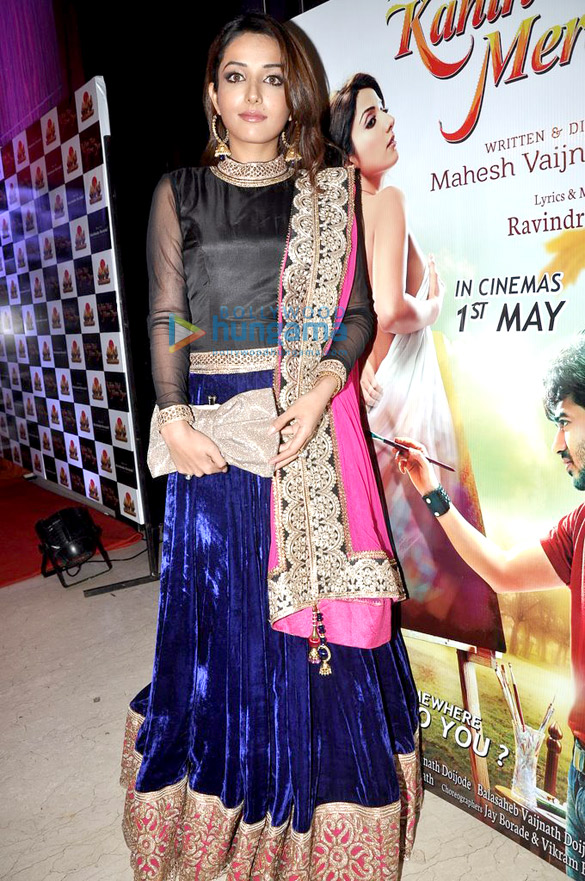 It is a photo of Sonia Mann. She is an Indian actress.